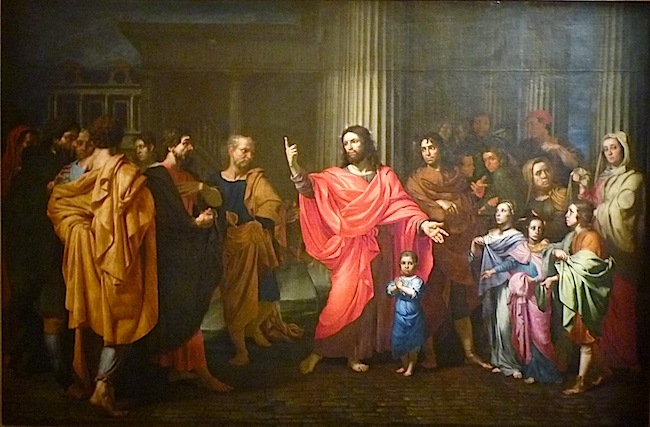 Christ Gathering the Little Children around Him, Albert Vandervelden’s collection